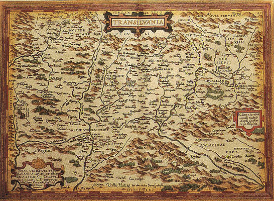 Johann Sambucus, Map of Transylvania